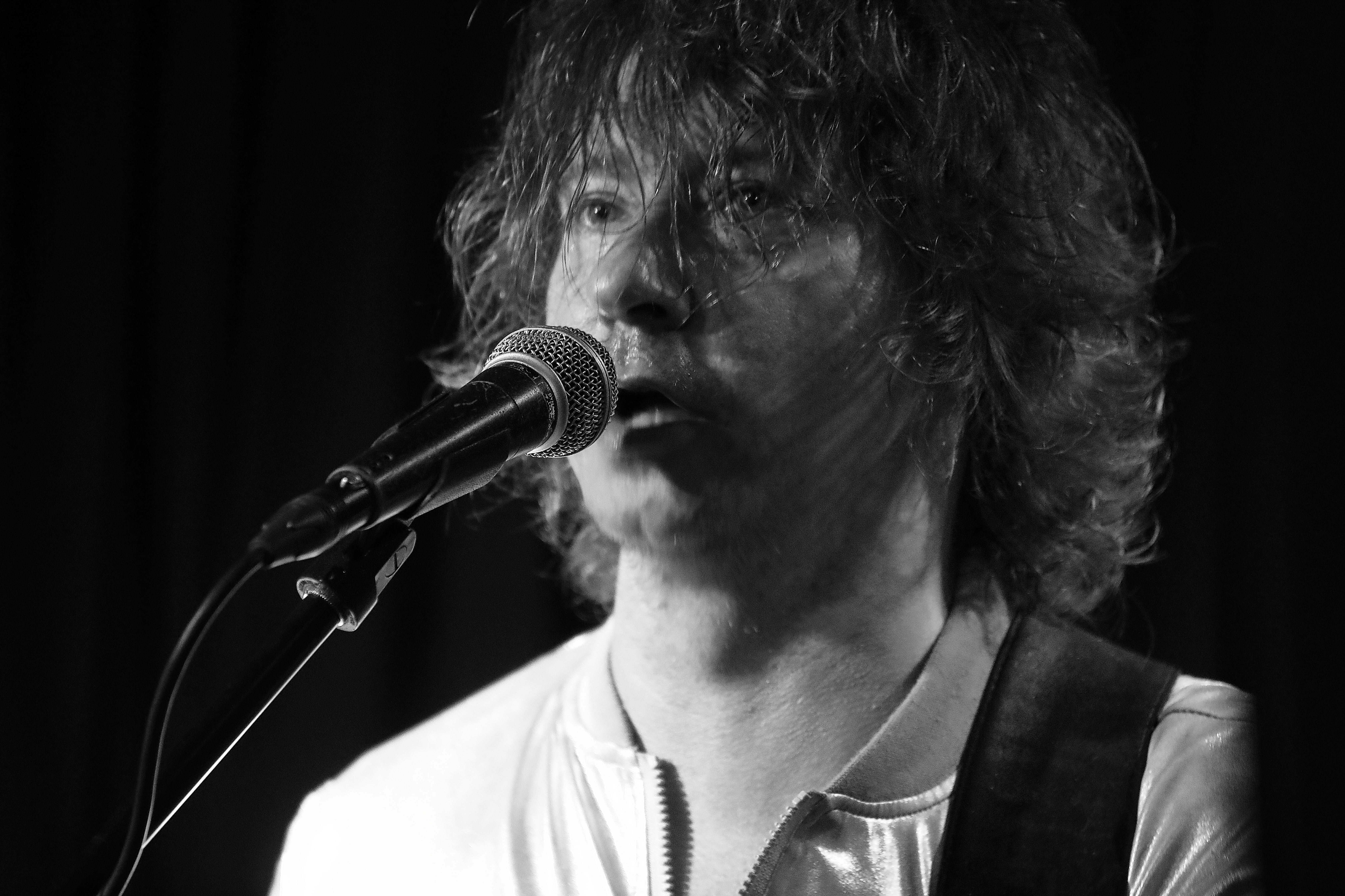 Child Abuse are Tim Dahl (b), Eric Lau (keyb) & Oran Canfield (dr). Here in concert at Club W71, Weikersheim 2019.